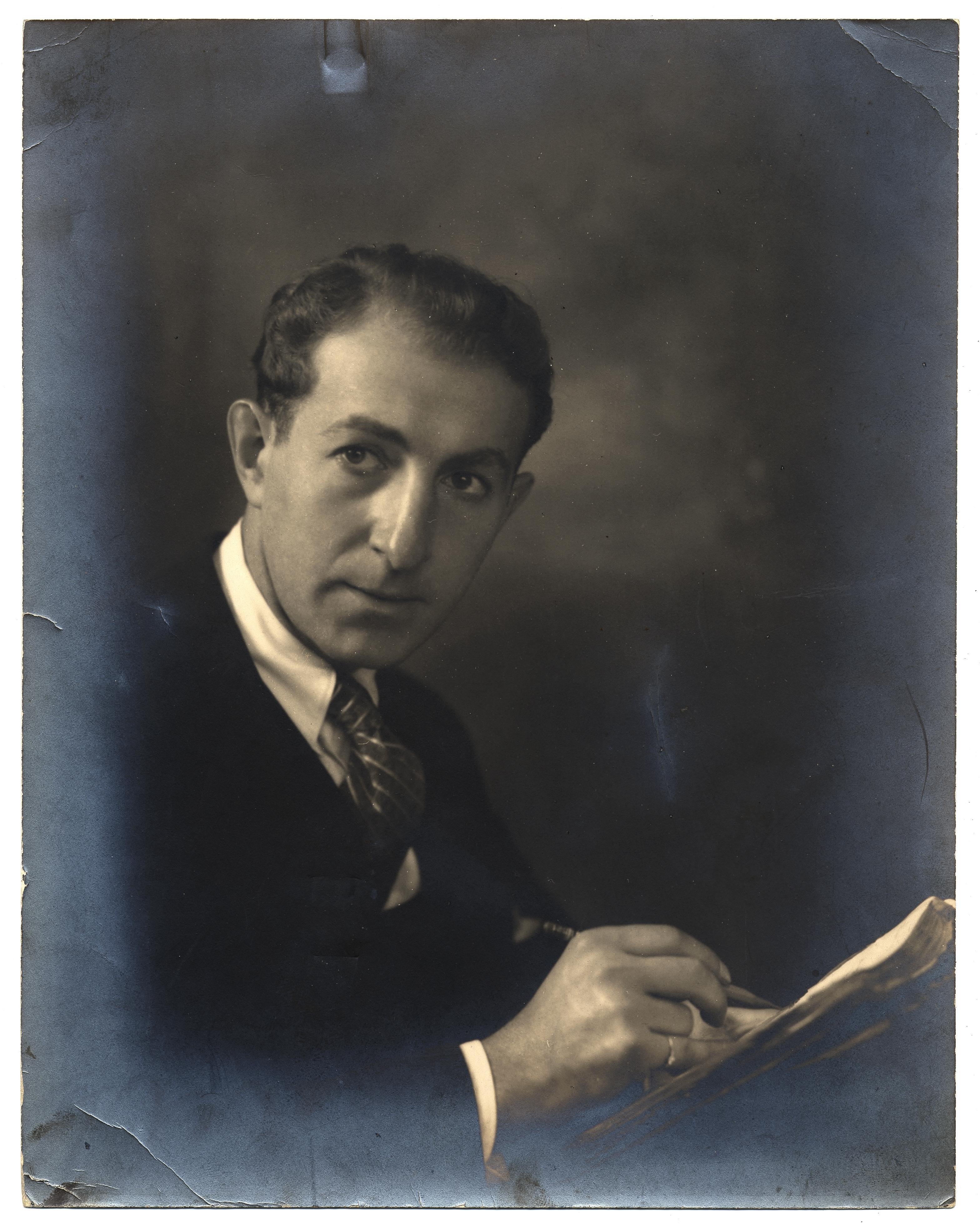 Margulies sketching. Margulies, Joseph, b. 1896 Creator/Photographer: Peter A. Juley & Son Medium: Black and white photographic print Dimensions: 25 cm x 19 cm Date: c. 1920 Persistent URL: Repository: Archives of American Art Native nameArchives of American ArtLocationWashington, D.C.Coordinates38° 53′ 52″ N, 77° 01′ 22″ W Established1954Website control : Q2860568 VIAF: 151134814 ISNI: 0000 0001 2185 0758 LCCN: n79065944 NLA: 35007823 GND: 1085306631 WorldCat Accession number: aaa_miscphot_5602